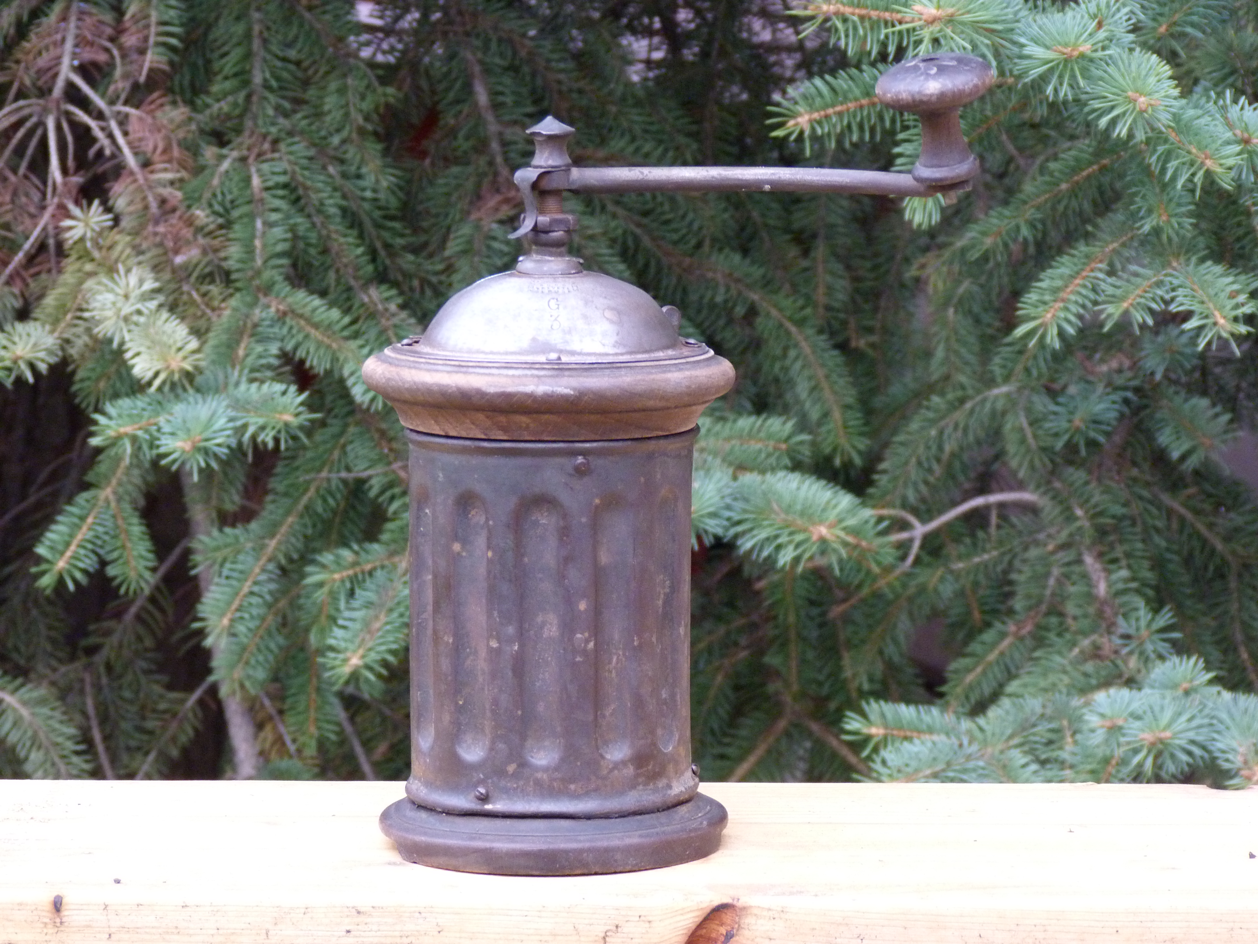 Live on the 25th of February, 2014. Antique coffee grinder or pepper mill. Marked: PEUGEOT FRÉRES S.G.D.G. BREVETE DEPOSE G 3. Mark detailed photo on (4). ©© Derzsi Elekes Andor, Budapest, 2014, You are authorised to use these photos and vids under Creative Commons – even for commercial, for profit purposes. Photos must be attributed to Derzsi Elekes Andor. All of the photos and vids in the Metapolisz DVD line are under Creative Commons and can be used even for commercial – for profit – purposes. Recommended Citation Derzsi Elekes Andor: Metapolisz DVD line